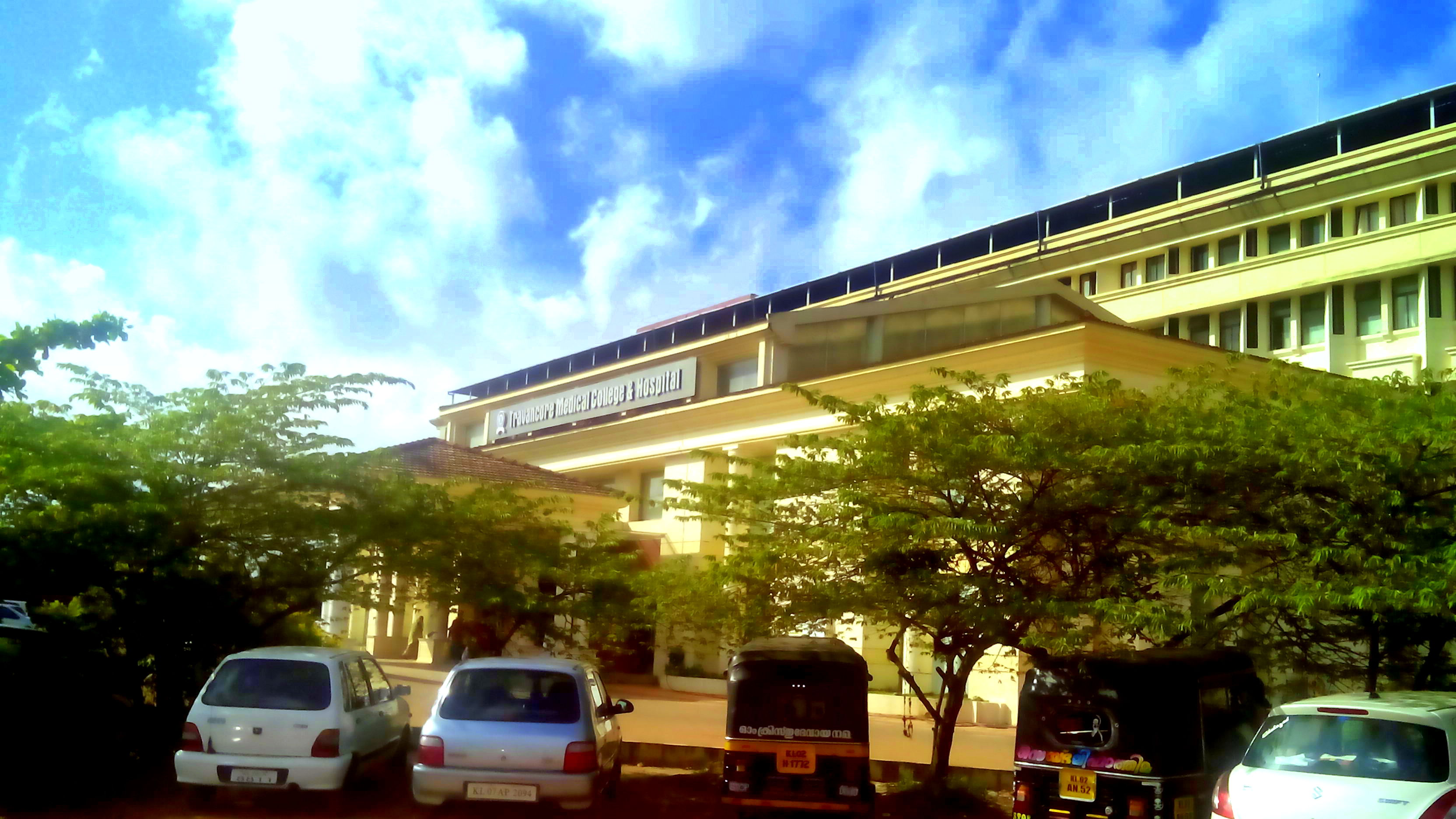 Travancore Medicity Medical College, Kollam - One among the three medical colleges in Kollam city